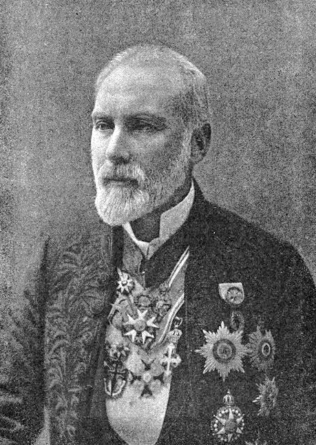 French sculptor Eugène Guillaume (1822-1905). Print of a photograph by Eugène Pirou (1841-1909).